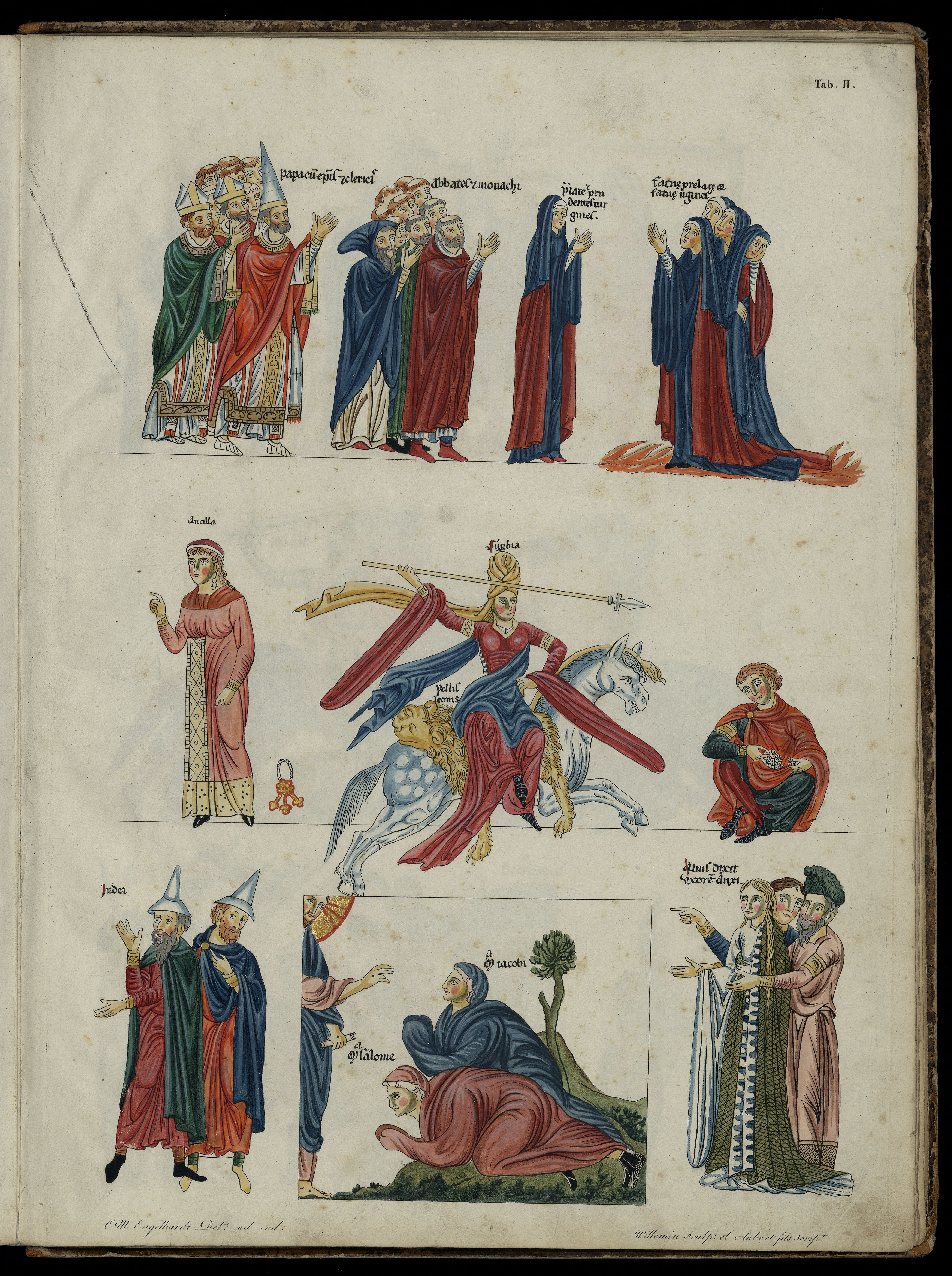 a table from Hortus Deliciarum (facsimile)